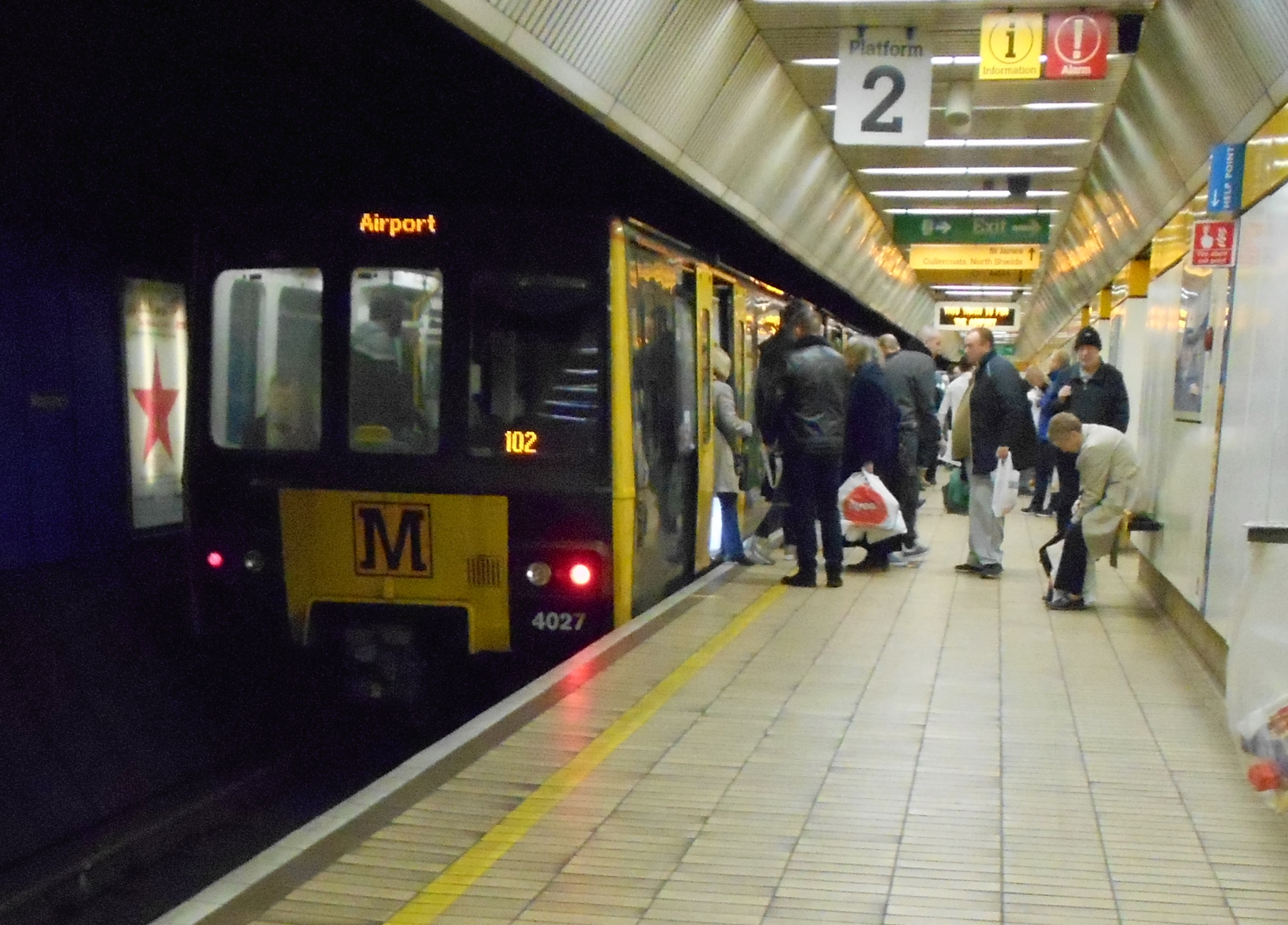 A Metro train unloading passengers on platform 2 at Monument Metro station.